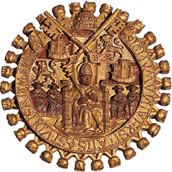 This is the logo for the University of Salamanca.